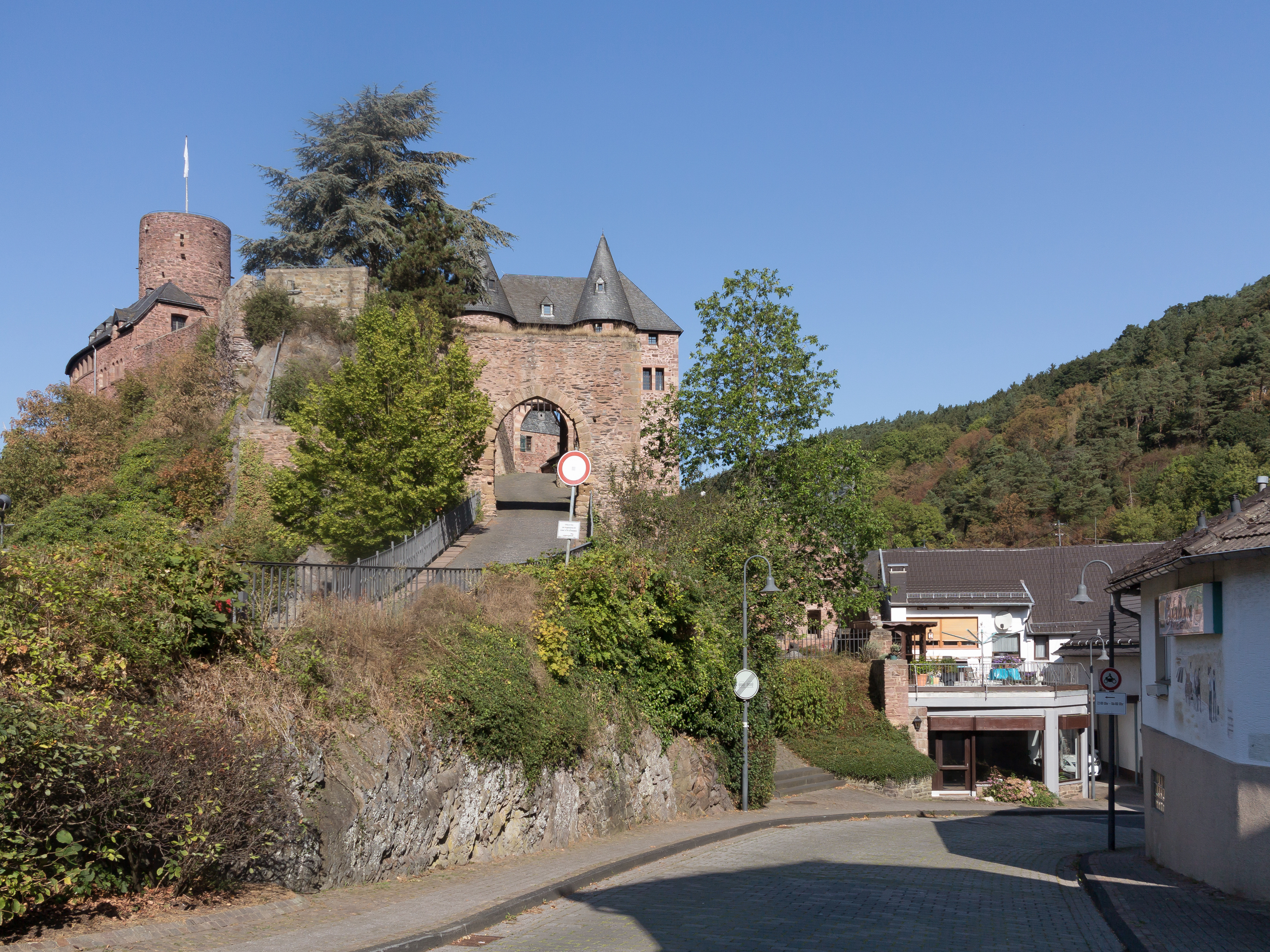 Heimbach, castle - Burg HengebachThis is a photograph of an architectural monument., no. 1